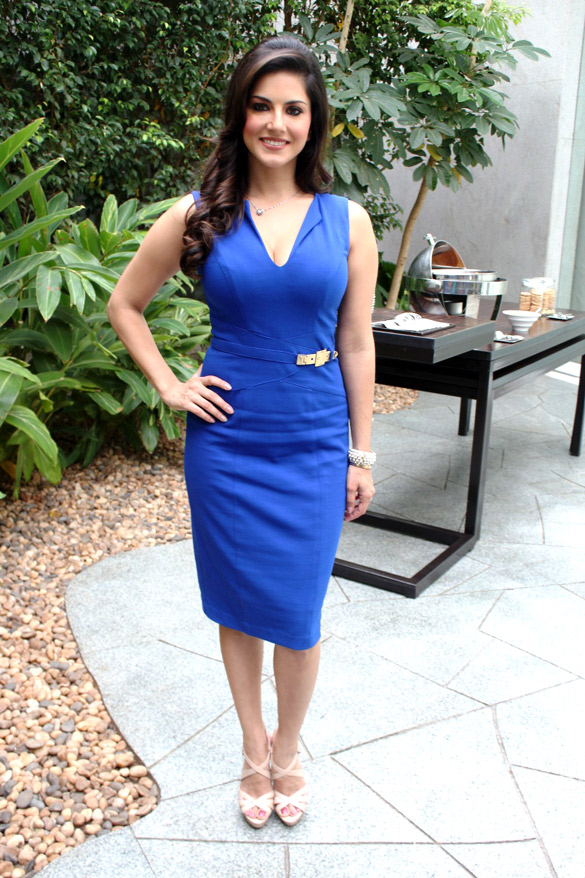 Sunny Leone in blue 2013